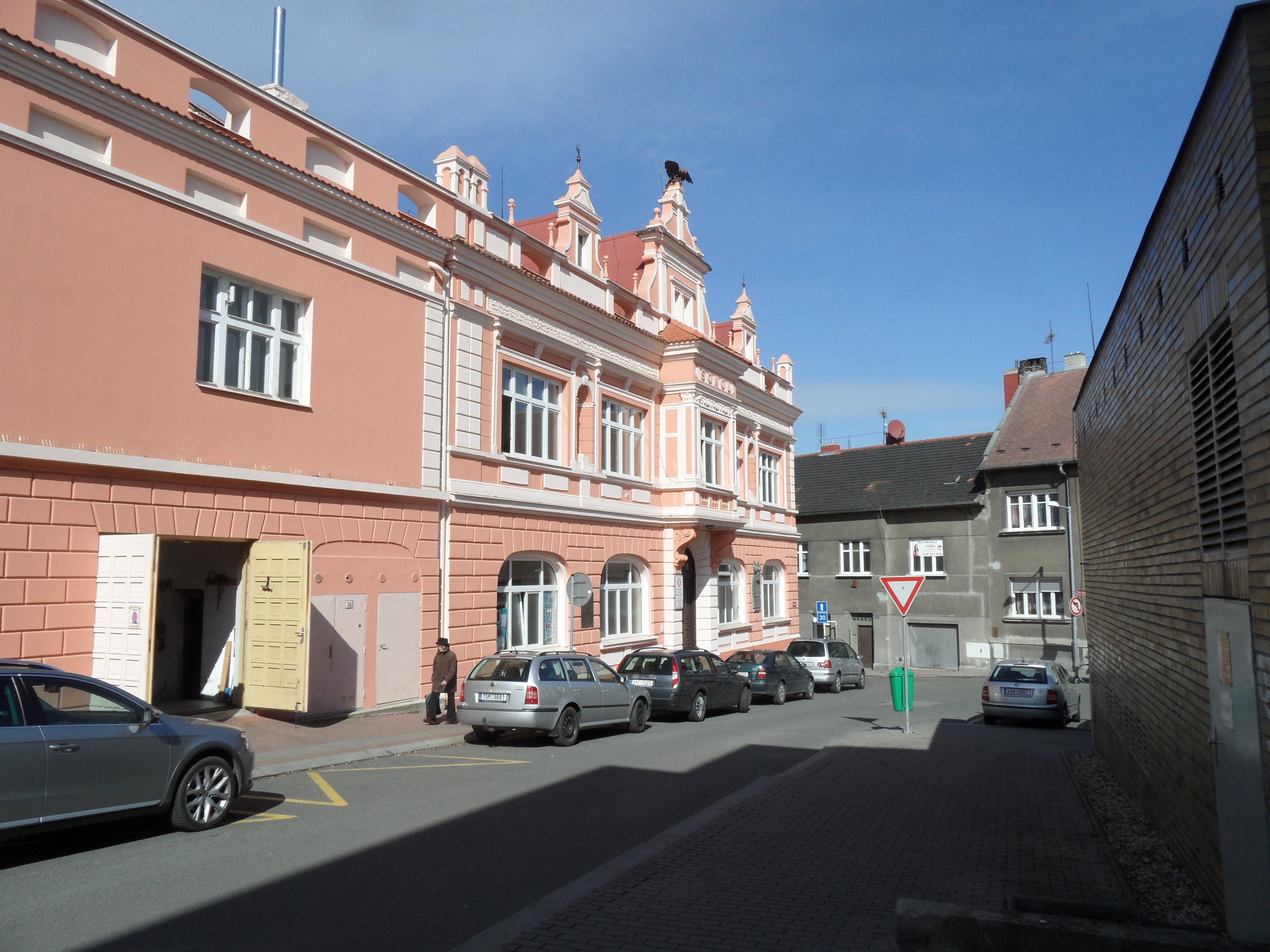 Kolín, Kmochova street, View from North to South (to Sokol house). Kolín District, the Czech Republic.